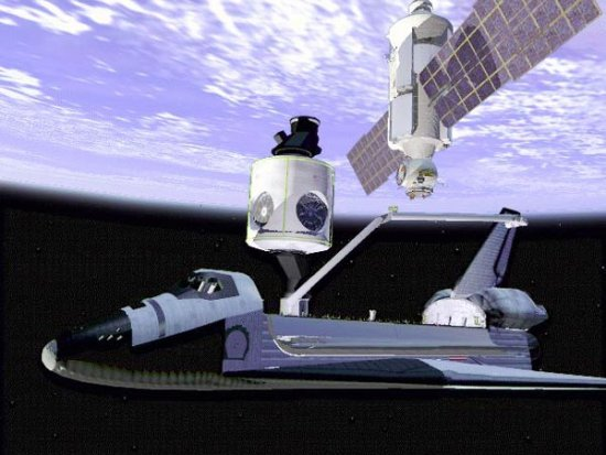 Zarya is being approached by space shuttle Endeavour during STS-88. Unity module is latched vertically atop the Orbiter Docking System in the forward portion of the bay of the space shuttle.